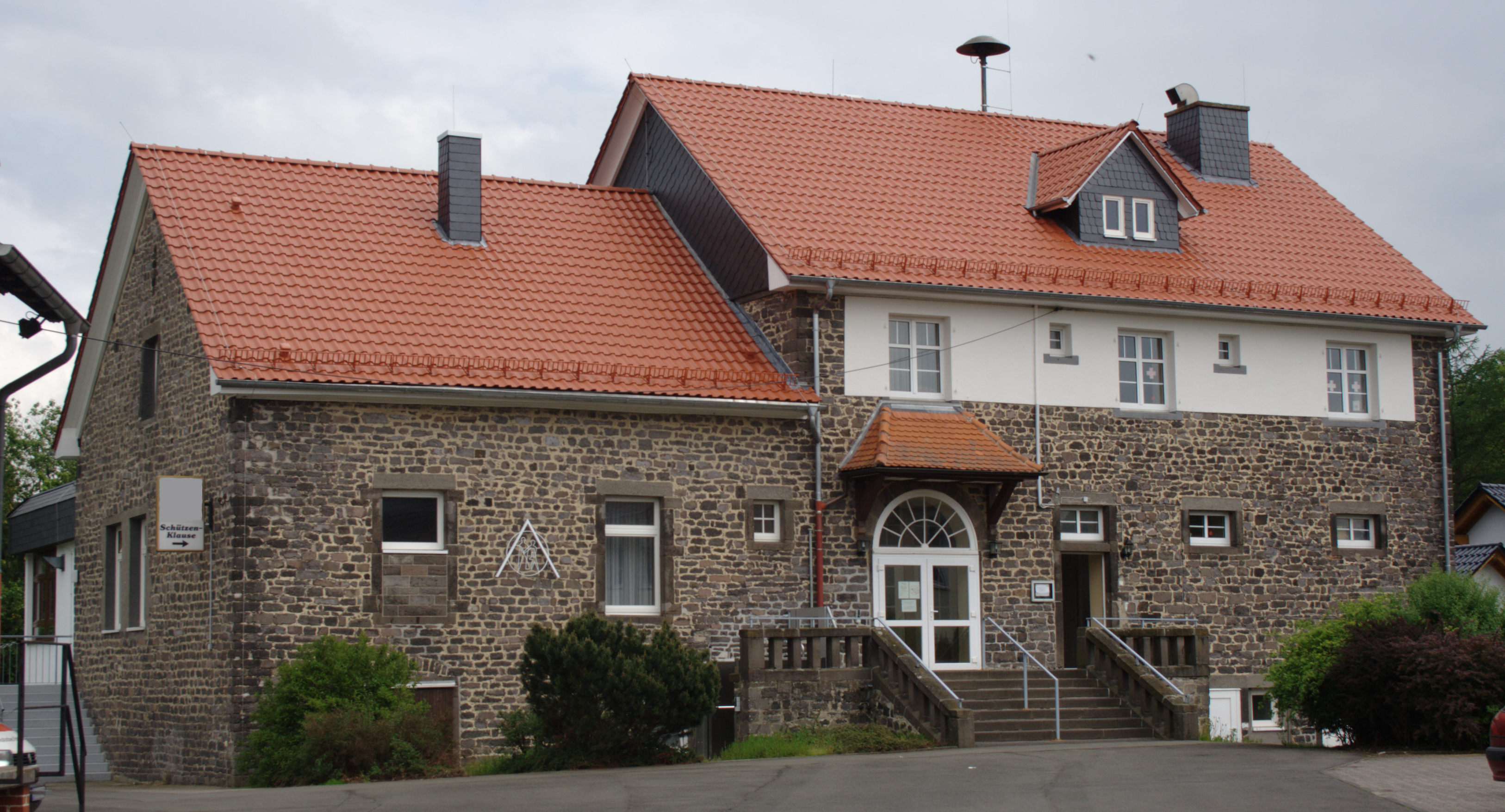 Building (community centre) in Muecke Merlau, Hesse, Germany